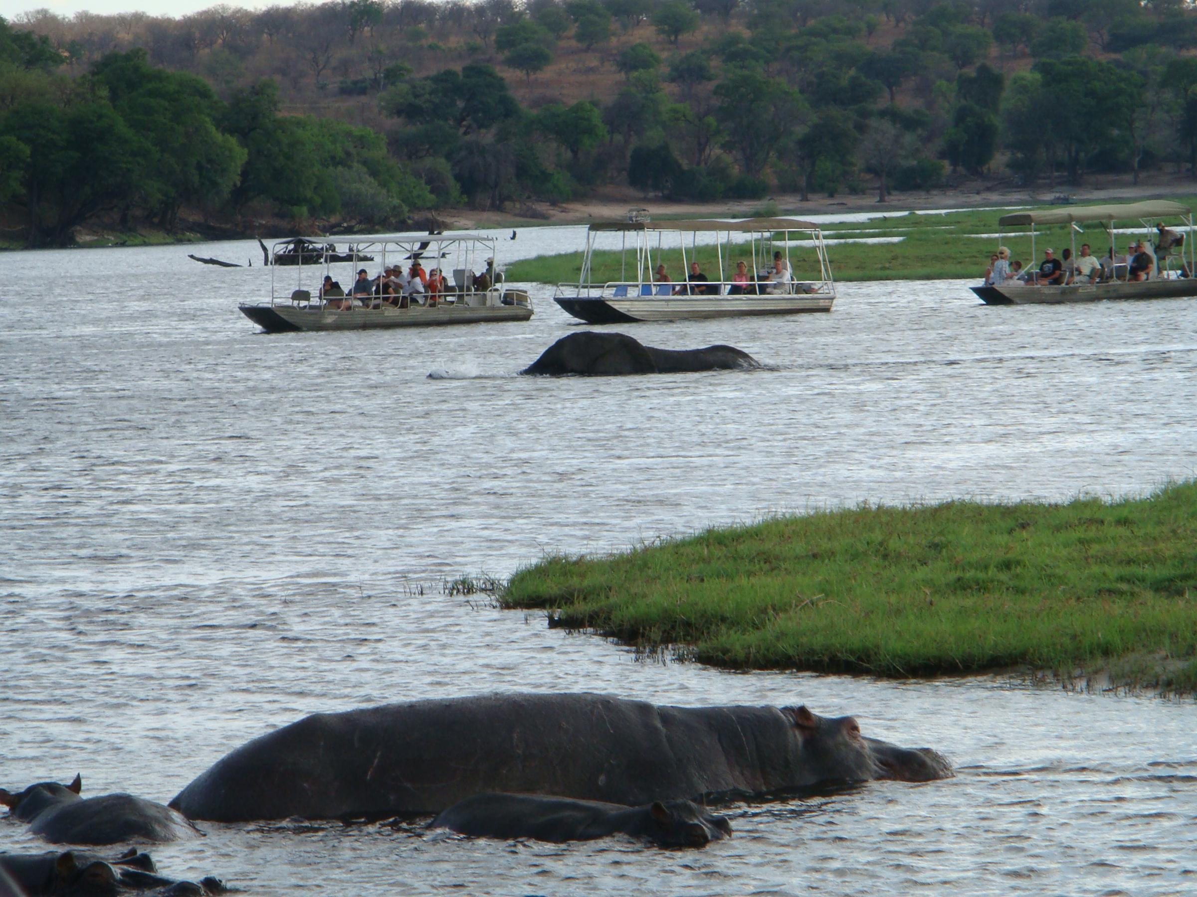 Pod of hippos and an elephant swimming